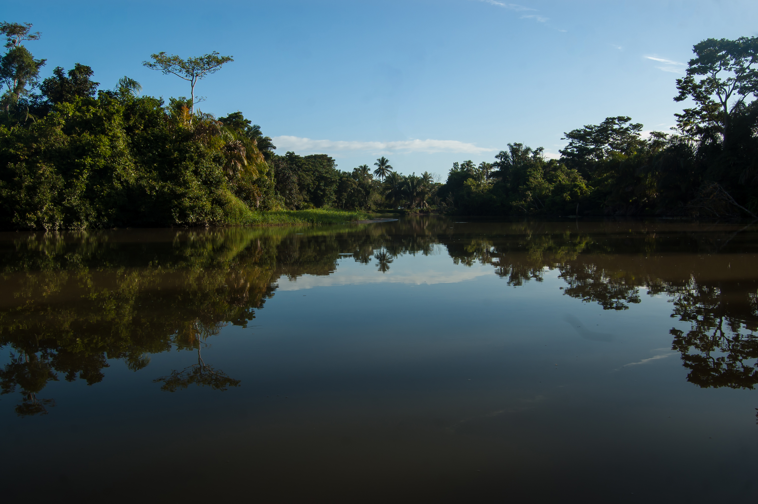 We appreciate any usage of this photo including for commercial purposes and will be glad if you maintain an active link to one of the author's websites: or